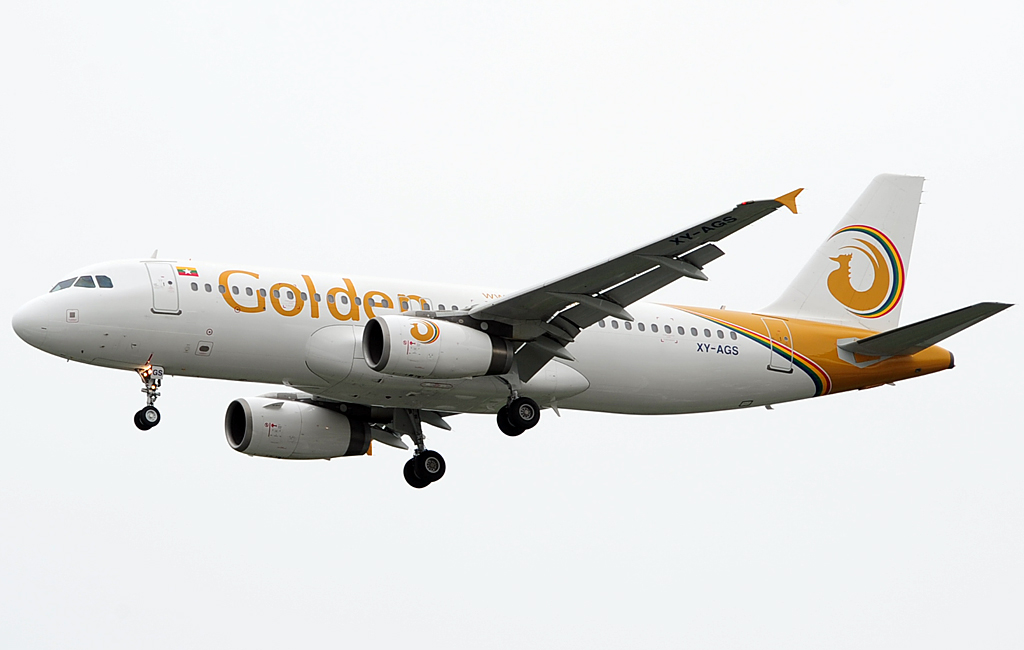 Asia's newest airline, but not alas it's newest aircraft. XY-AGS A320-232 of Golden Myanmar landing at Singapore, Changi on April 14, 2013. The aircraft is ex G-MIDU and EC- something or other.